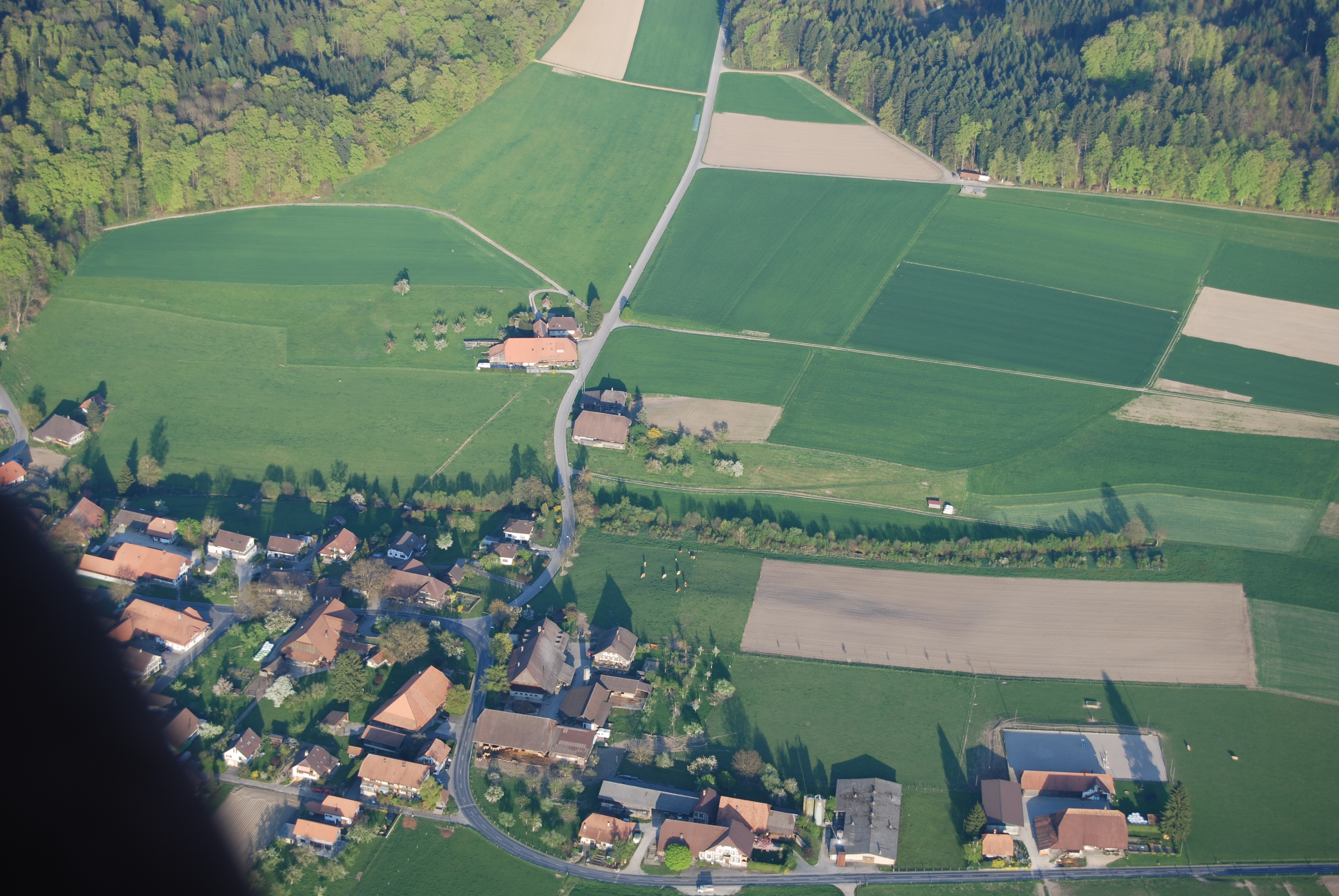 Etzelkofen, canton of Berne, Switzerland